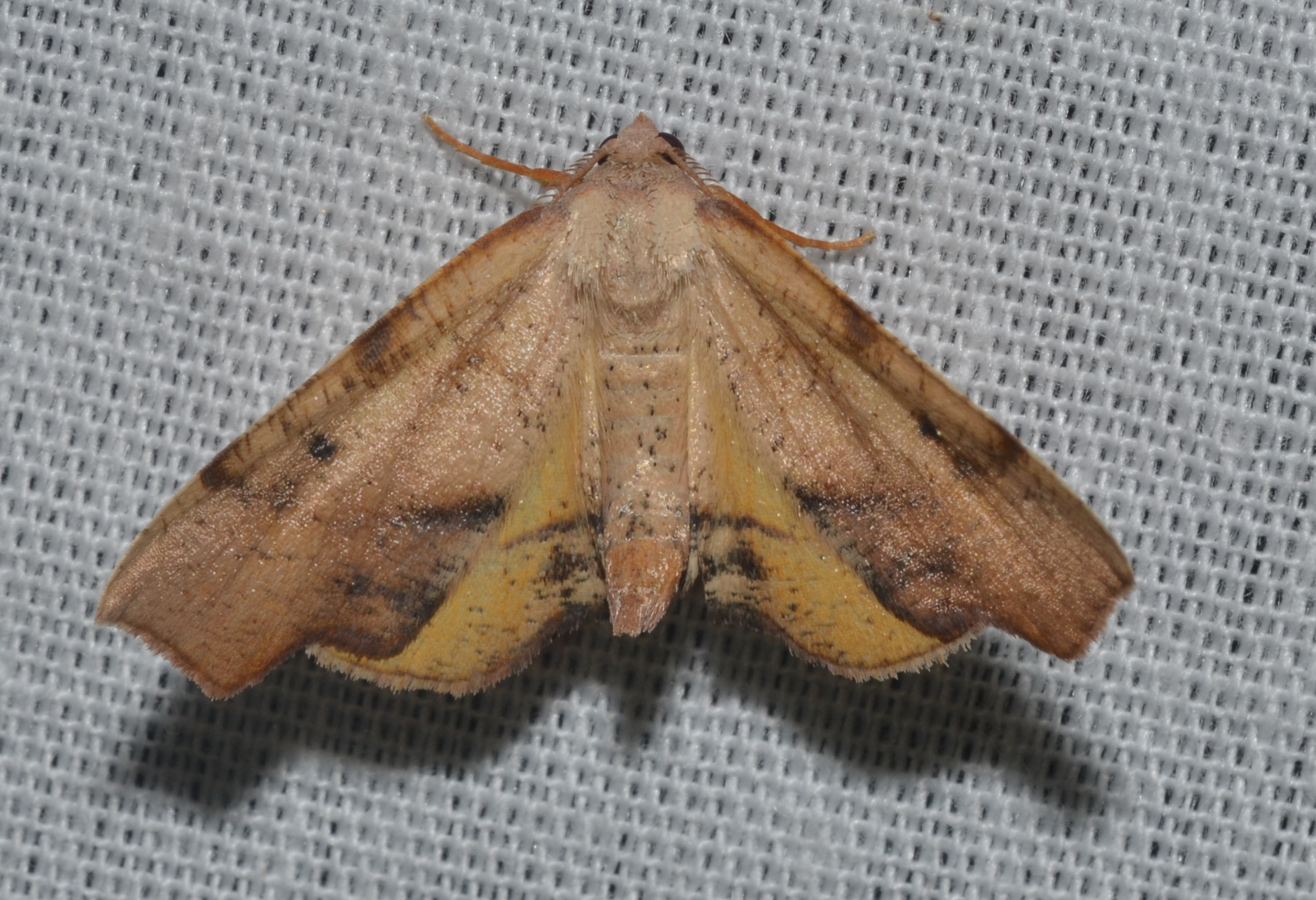 Ozark, MO 6/19/15- 6/21/15 ID thanks to Eric Cummings